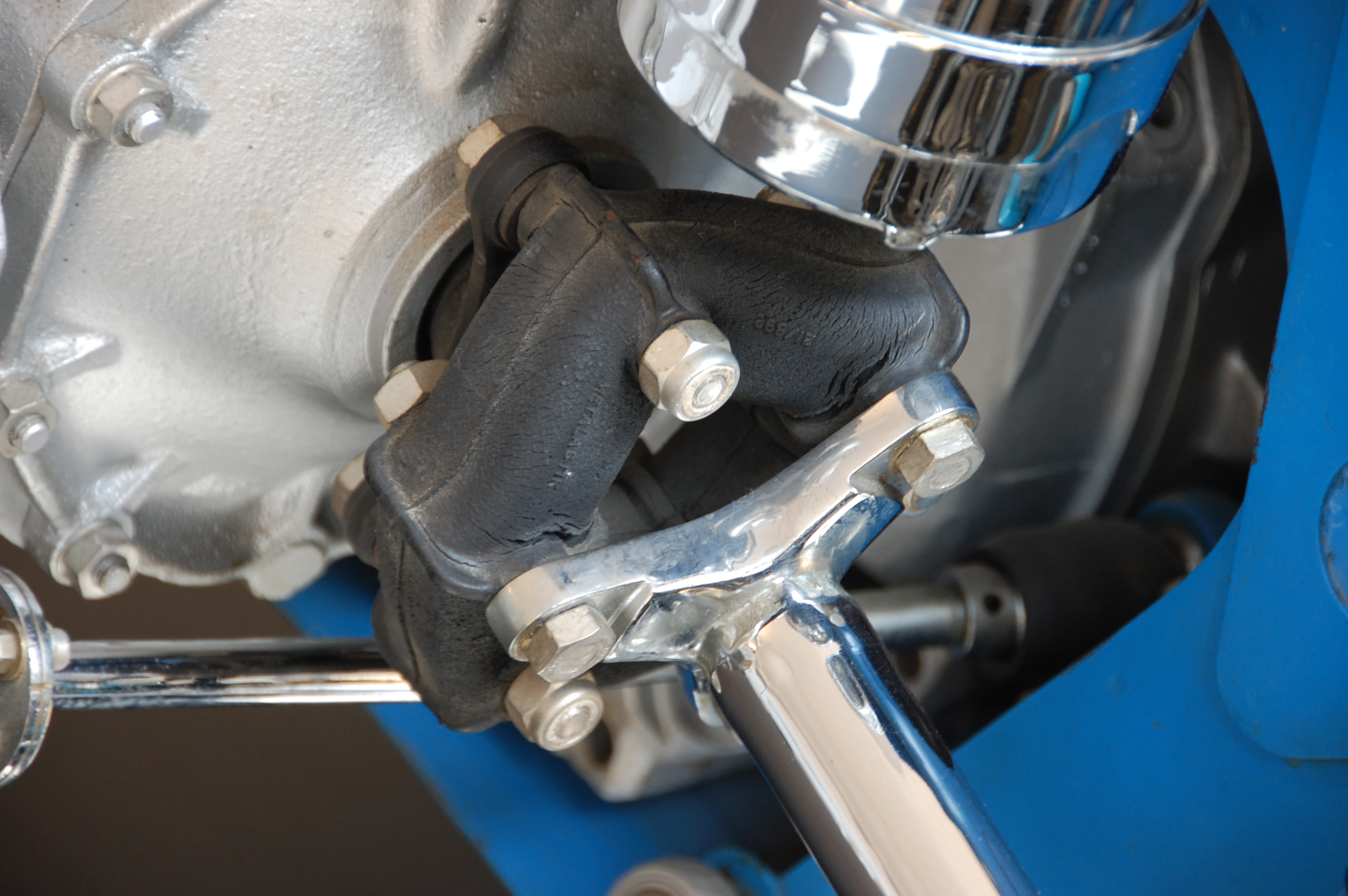 Rubber donut joint (aka giubo) on the right hand rear driveshaft of a 1960's Matra MS7 formula 2 race car on display on the Musee Matra in Romoratin, France.